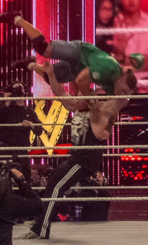 Brock Lesnar delivers an F-5 to John Cena at the WWE Raw taping in 2 April 2012.